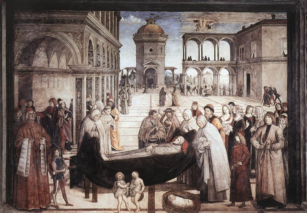 Death of St. Bernardine, 1487-89: Fresco Cappella Bufalini, Santa Maria in Aracoeli, Rome